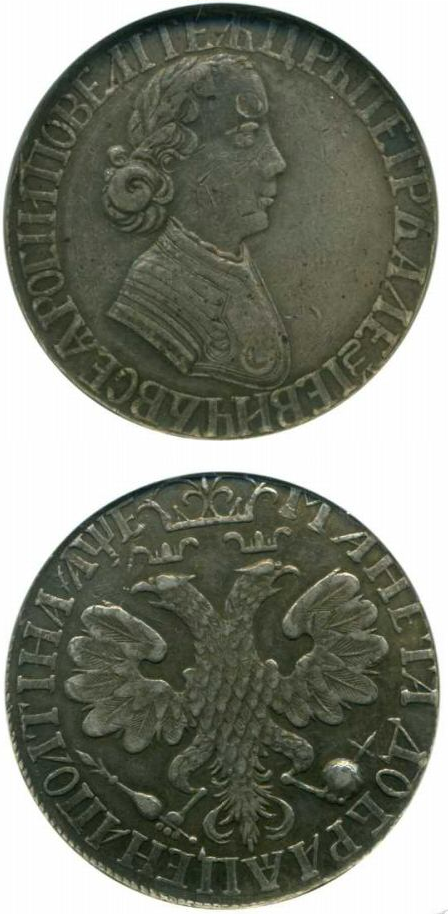 Russian 1/2 ruble of 1705